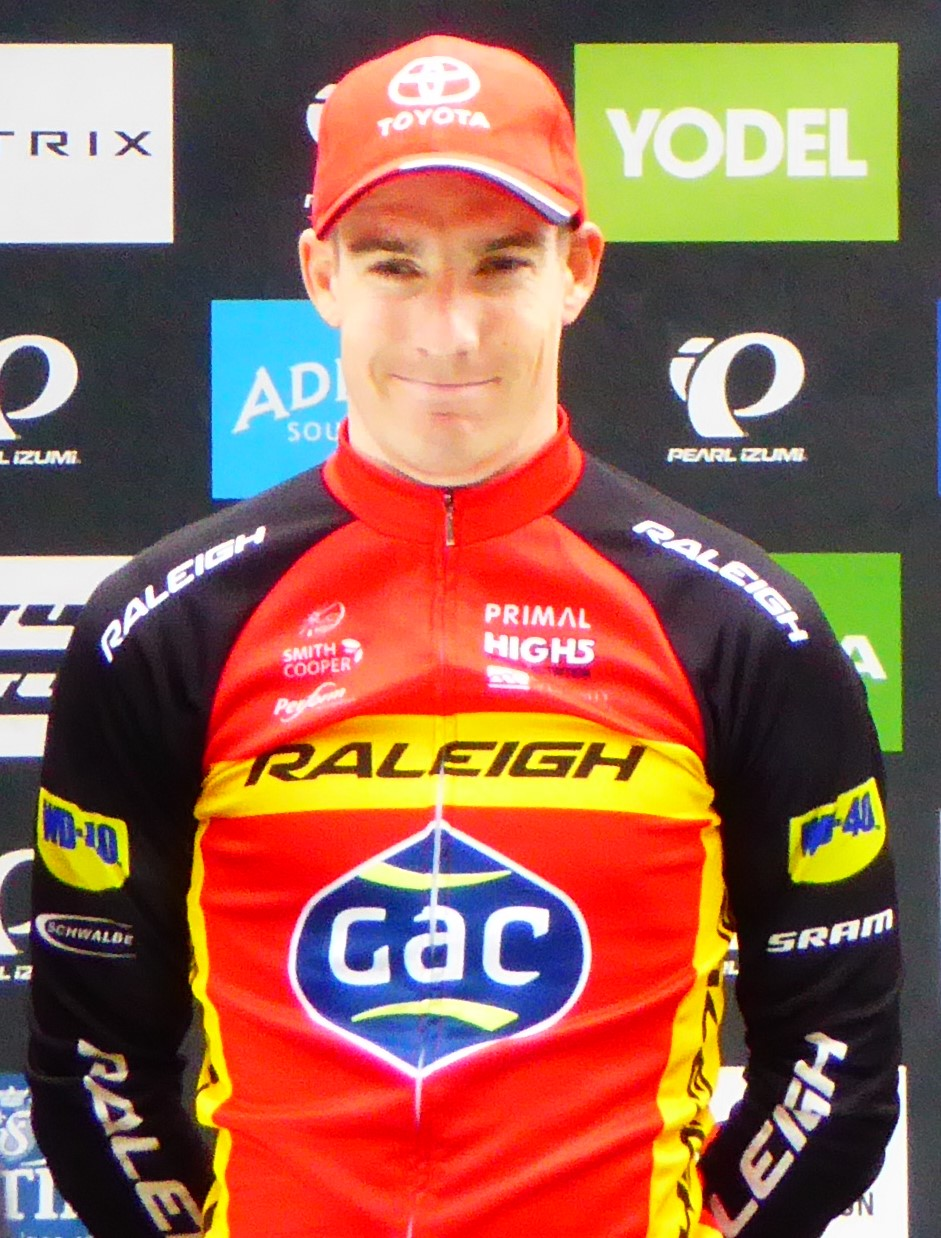 Matthieu Boulo, pictured at Round 3 of the Pearl Izumi Tour Series in Edinburgh on 19 May 2016.